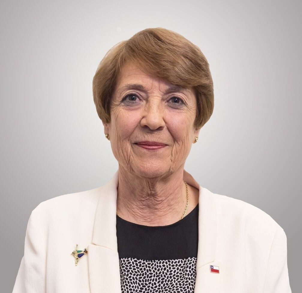 Official photo of Consuelo Valdés as Minister of Cultures, Arts and Cultural Heritage in 2018